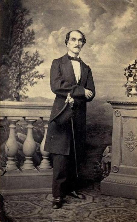 W. Wollenteit - Portrait of Grigore Alexandrescu (1810-1885)